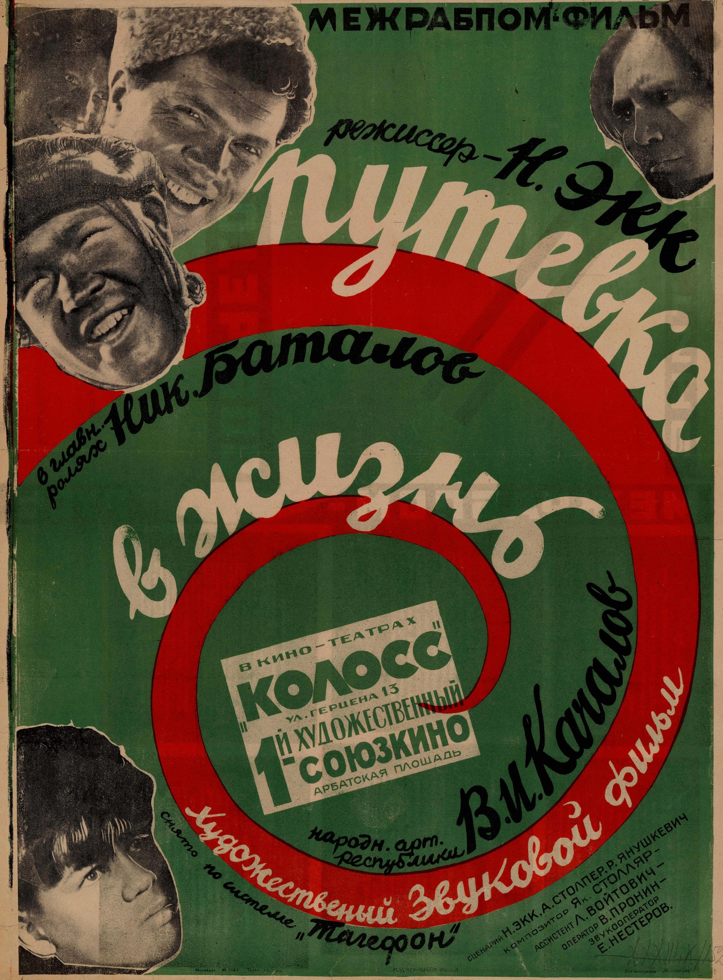 Description: Low-resolution image of poster for first Soviet talkie, Putyovka v zhizn (The Road to Life, aka Voucher to Life; 1931), directed by Nikolai Ekk.